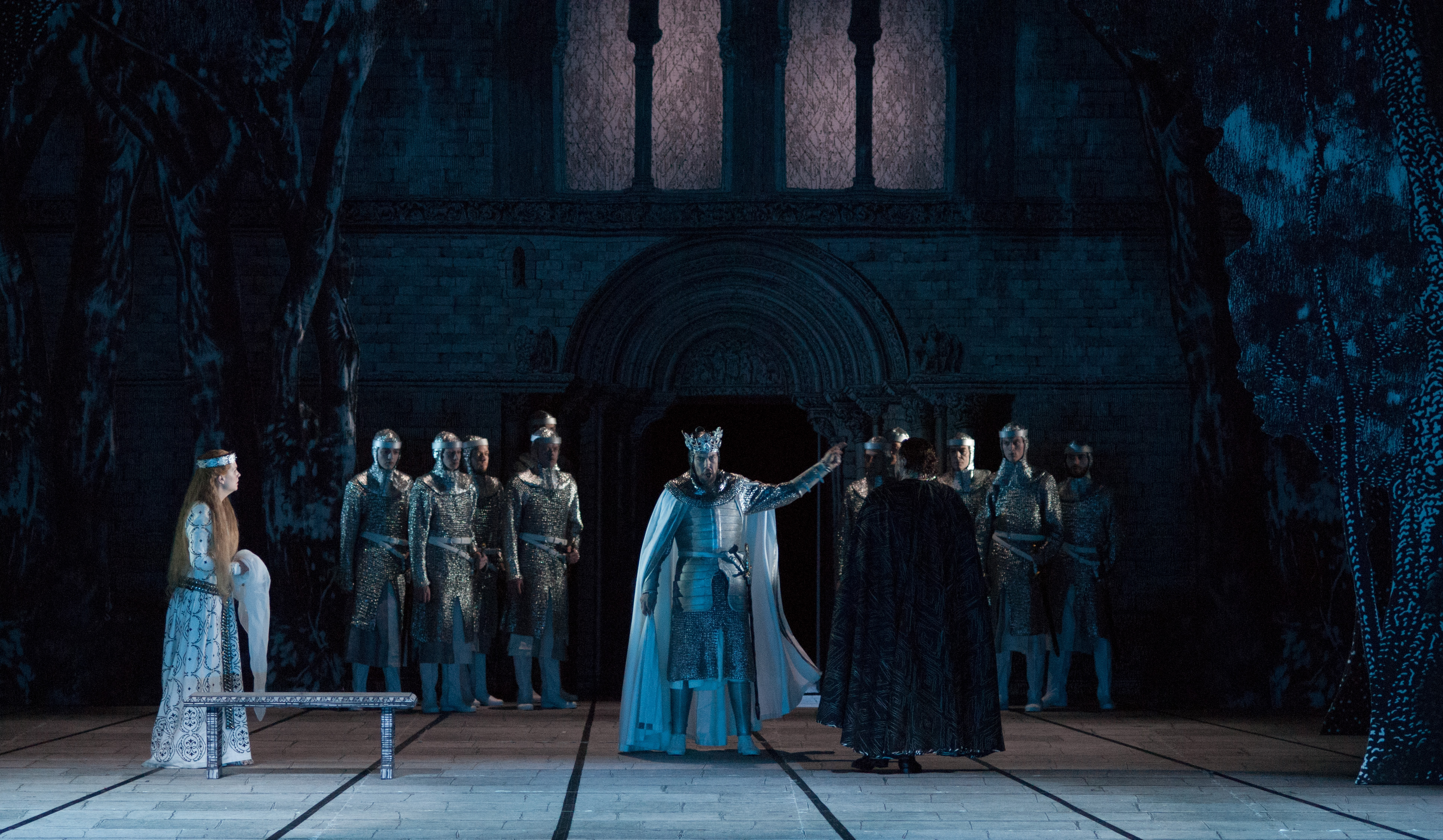 Fierrabras, Salzburger Festspiele 2014, directed by Peter Stein, with Julia Kleiter, Georg Zeppenfeld and Michael Schade